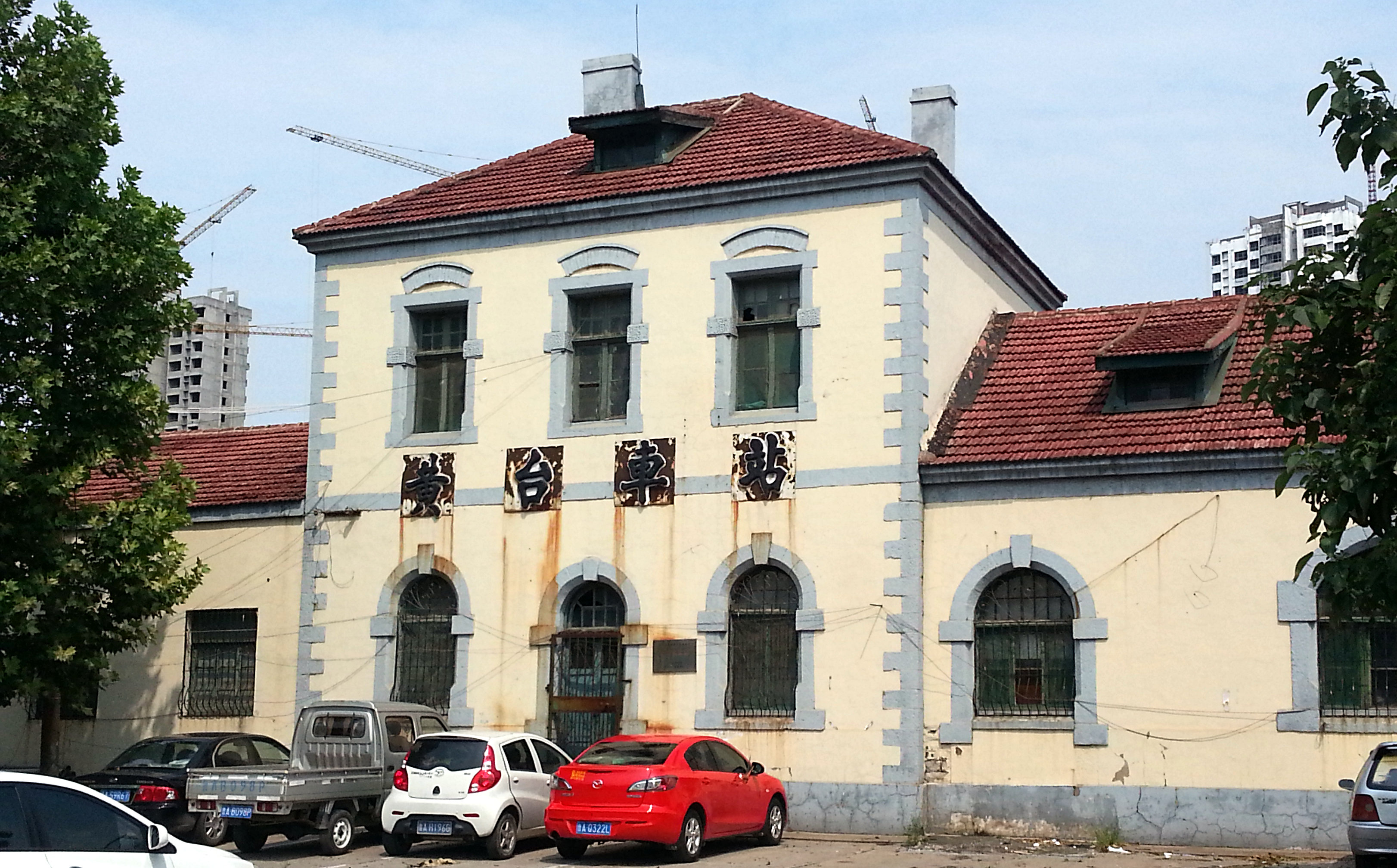 Photograph of the Huangtai railway station, Jinan, Shandong, China